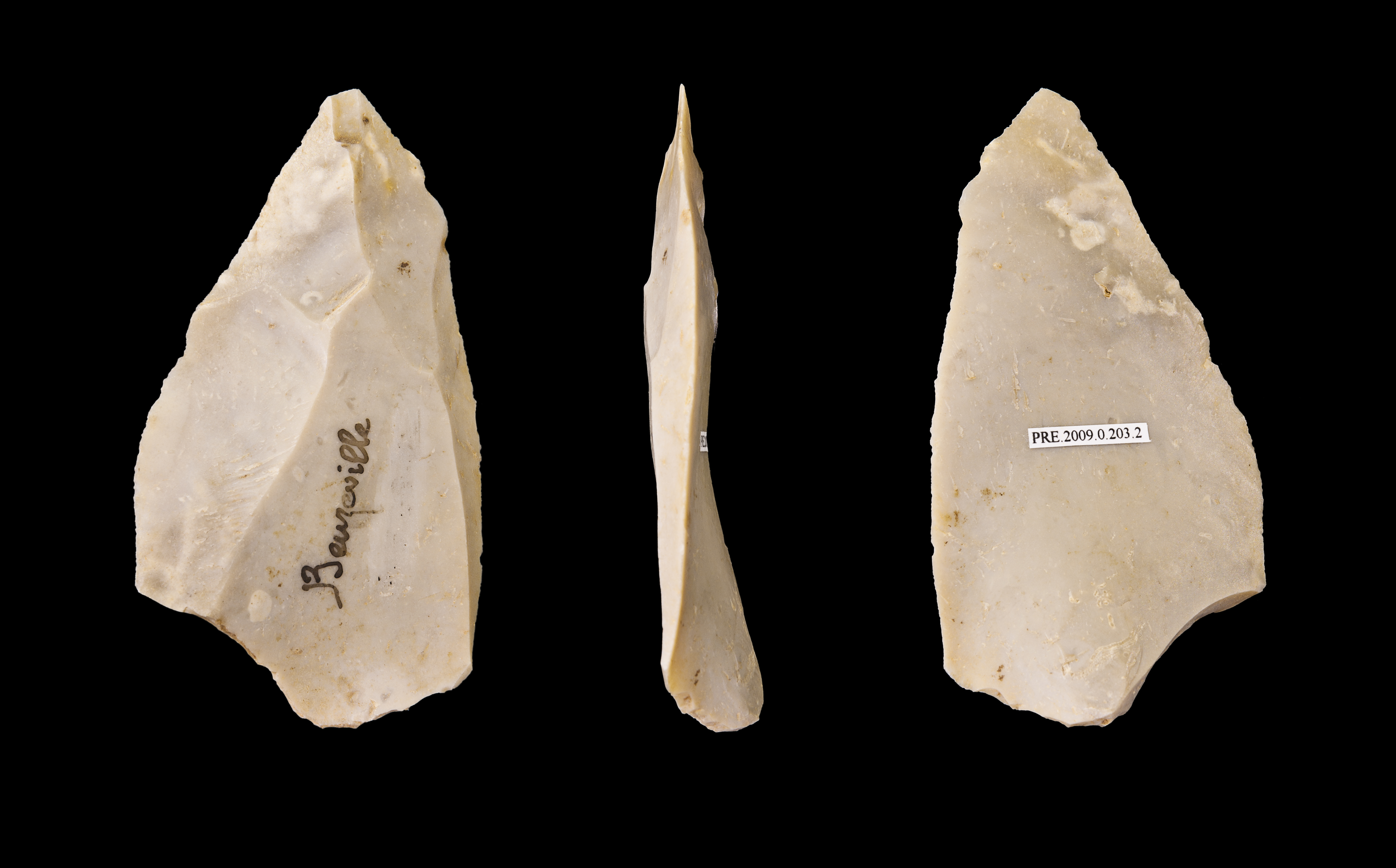 Different views of the same specimen.